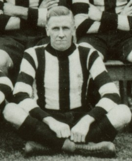 Photograph of Hector Lingwood-Smith in 1922